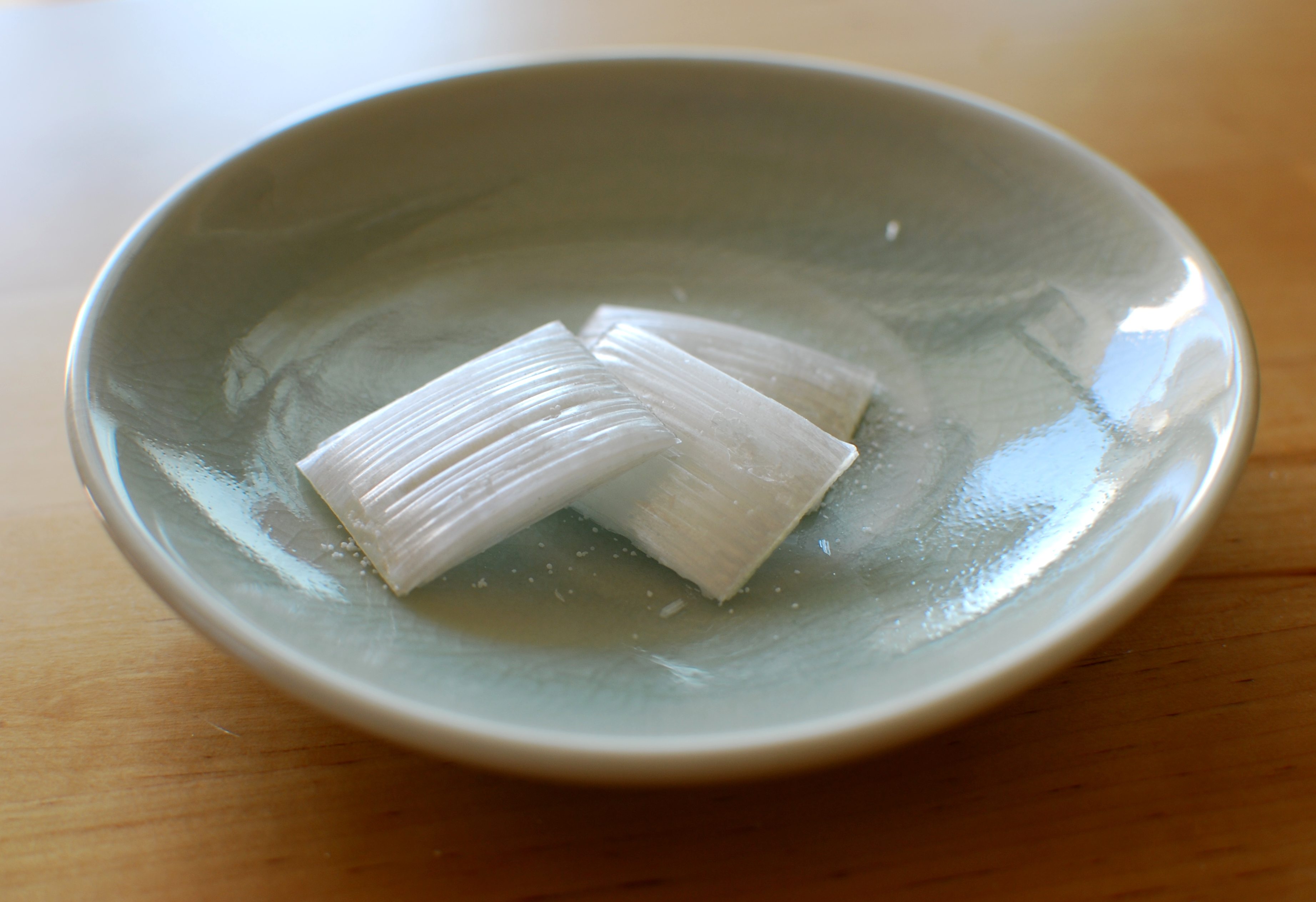 The rice candy "Shimobashira" (霜ばしら) from Kokonoehonpo Tamazawa, Sendai